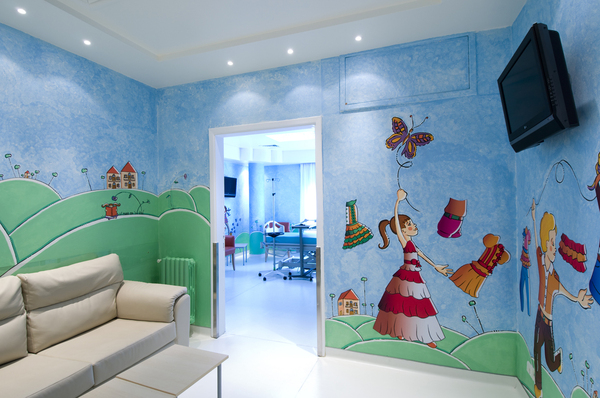 Toufoula Dream room , waiting room